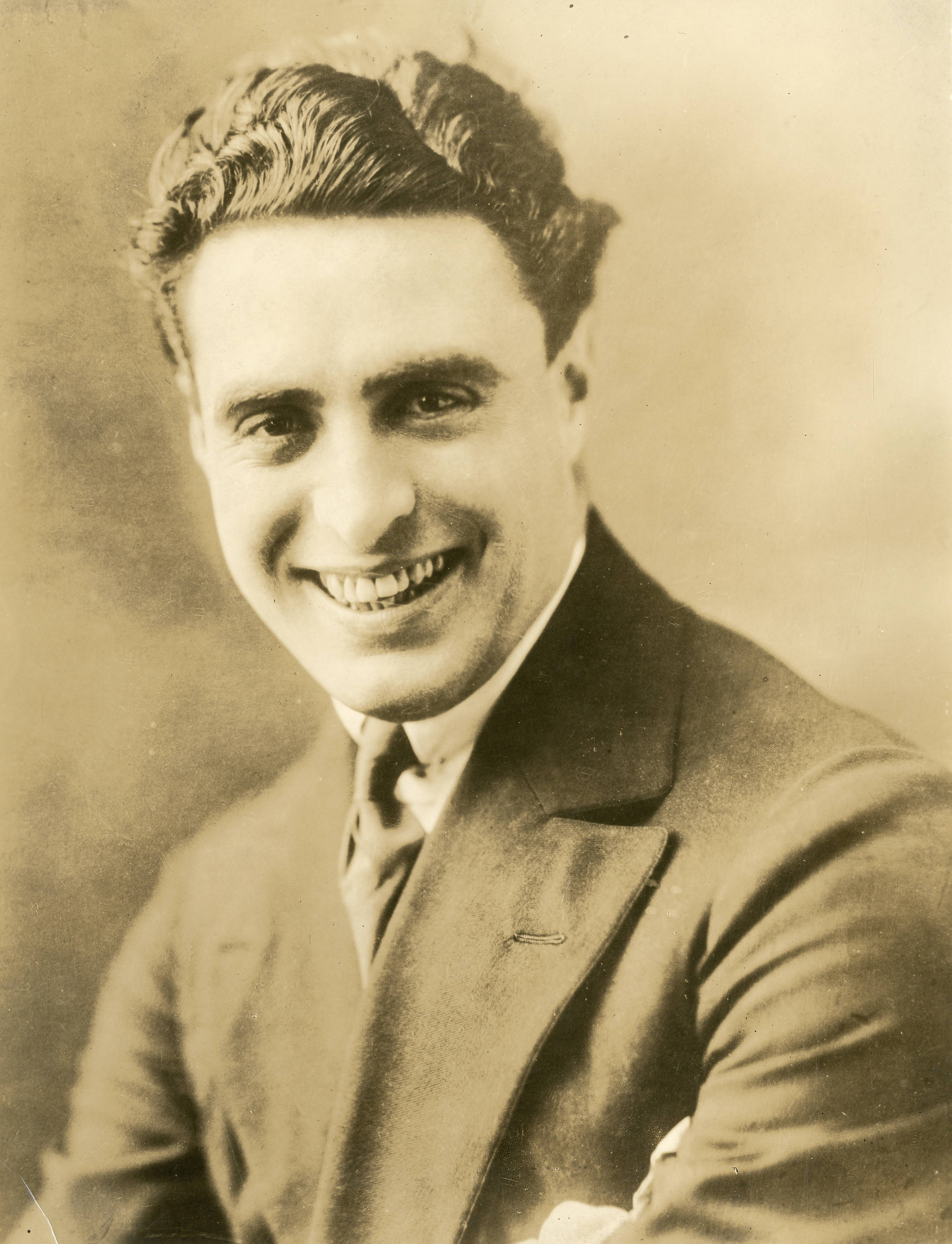 George Walsh, silent film actor Subjects: actors